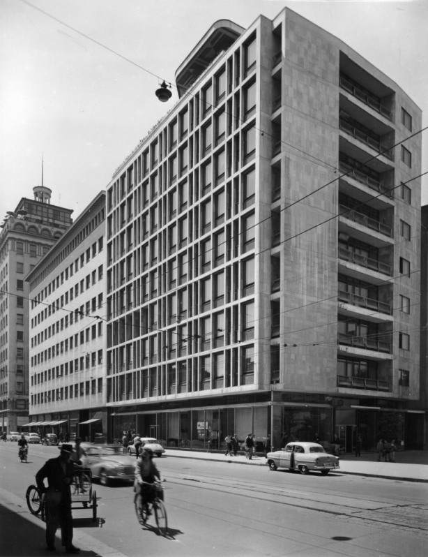 Glavna zadružna zveza 1955, Emil Medvešček